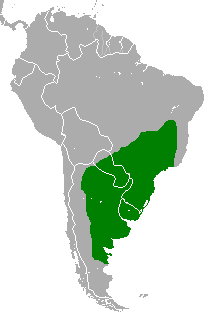 Nothura maculosa range map Source